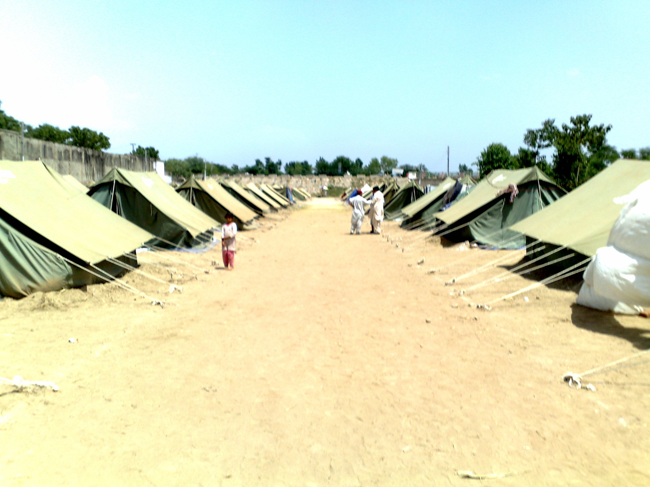 A camp for displaced people in Swabi, roughly 75km south of Swat Valley.